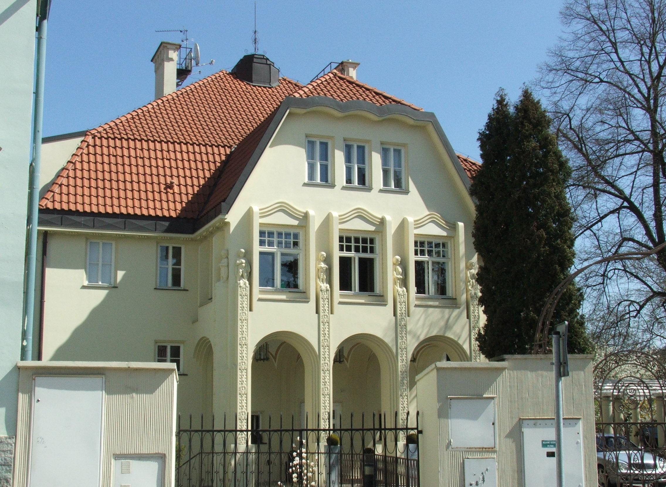 Otakar Novotný: Villa of Jan Otto - publisher, Žitavského street 500, Prague-Zbraslav, Czechia.